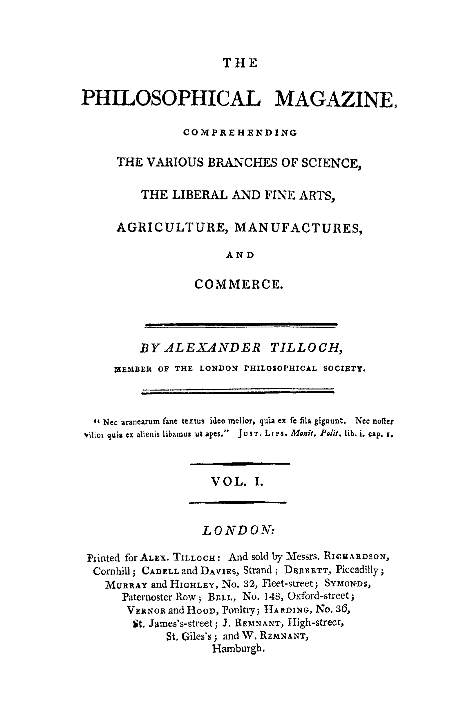 The Philosophical Magazine. 1st Series, Volume 1, June 1798 - Titlepage